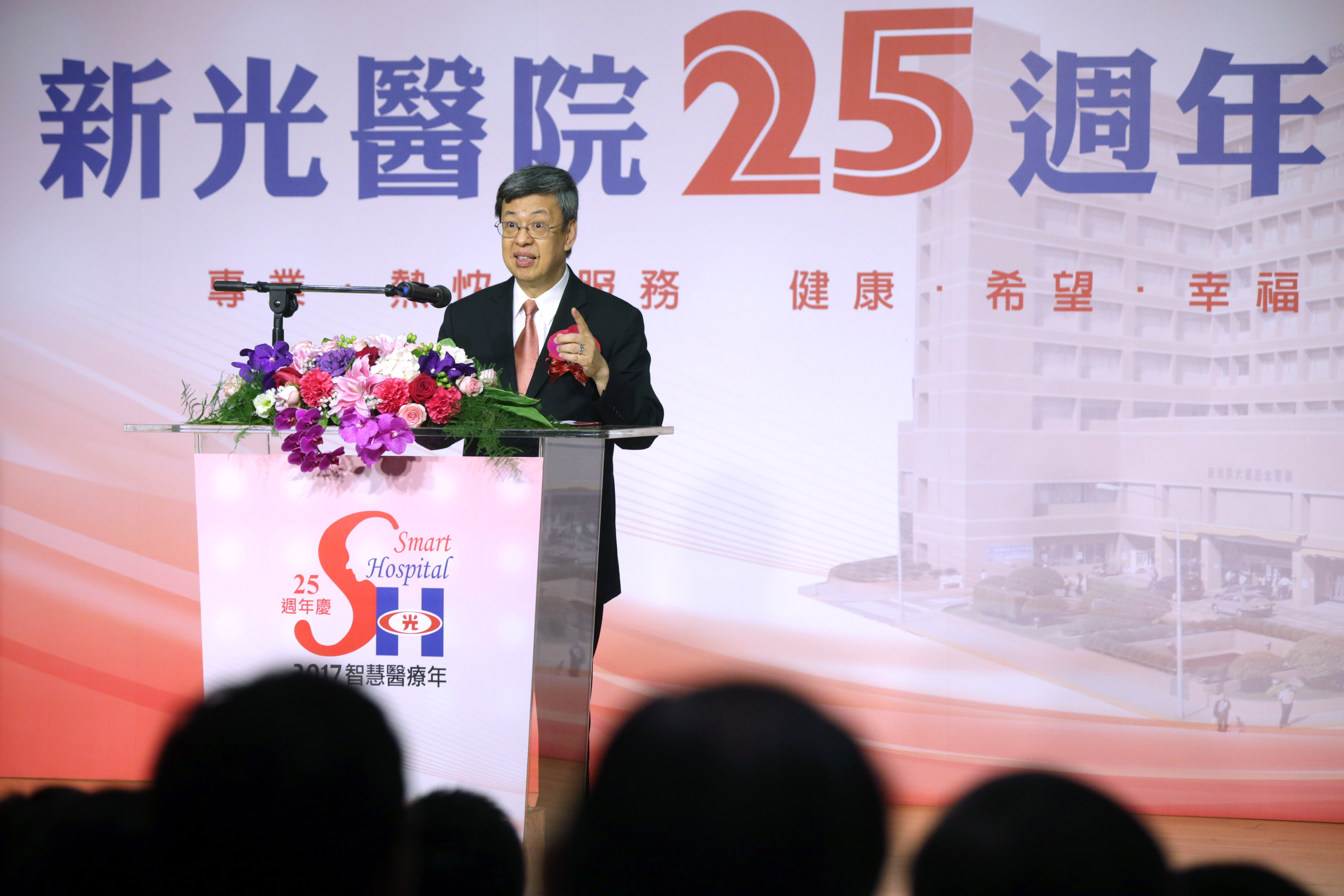 授權方式及範圍：中華民國總統府│政府網站資料開放宣告 Authorization Method & Scope: Office of the President, Republic of China (Taiwan) | Government Website Open Information Announcement